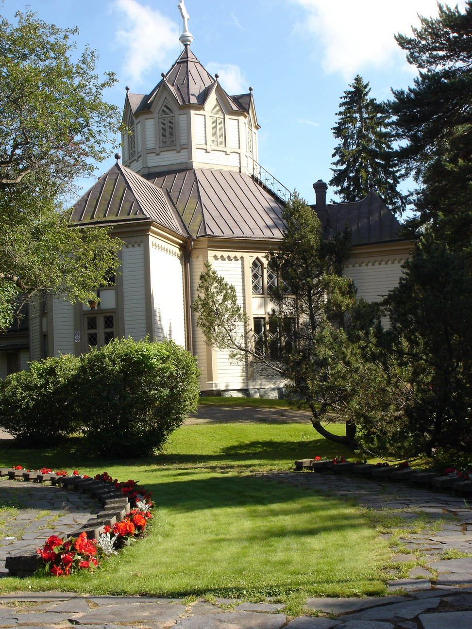 Church of Ruotsinpyhtaa